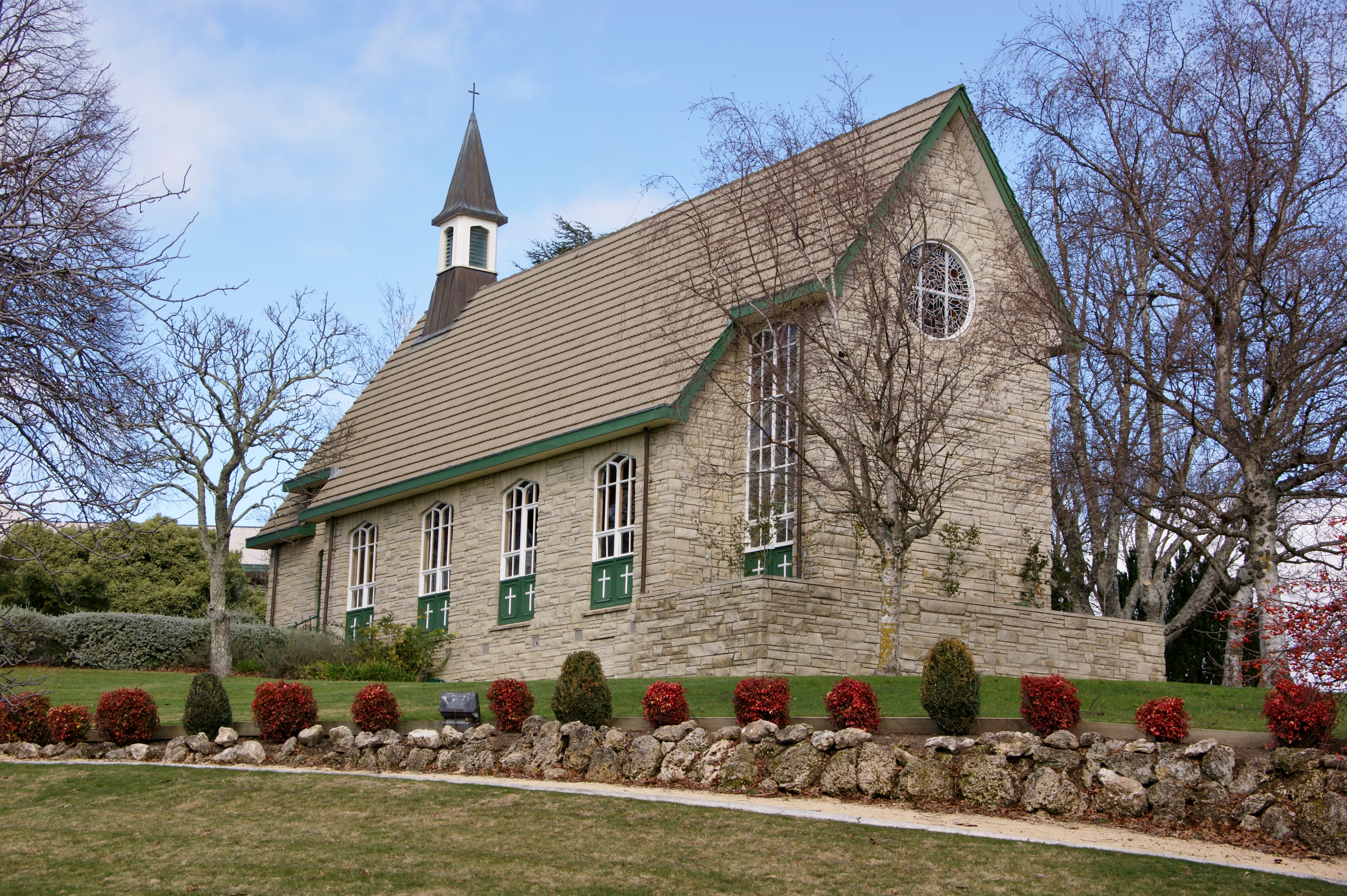 A church in New Zealand.